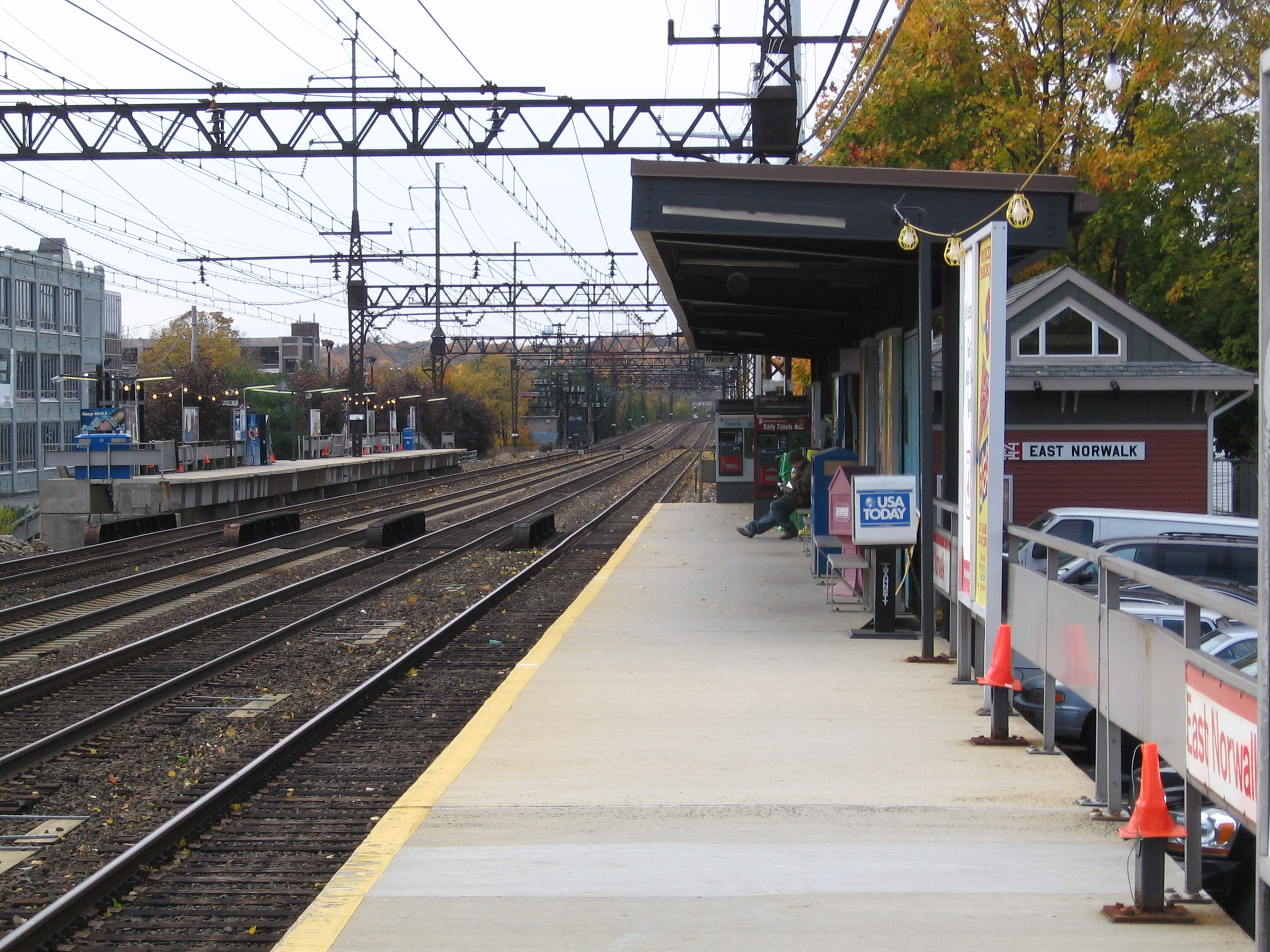 View of both platforms, as seen from the north platform of the East Norwalk Railroad Station looking west.